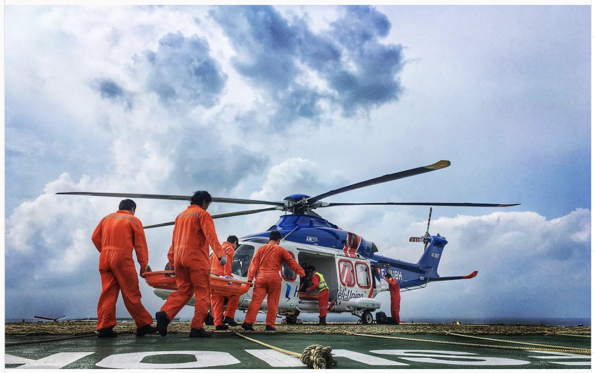 International SOS medical staffs performing offshore emergency MEDEVAC in oil and gas drilling platform in Andaman Sea, Myanmar along with HeliUnion.